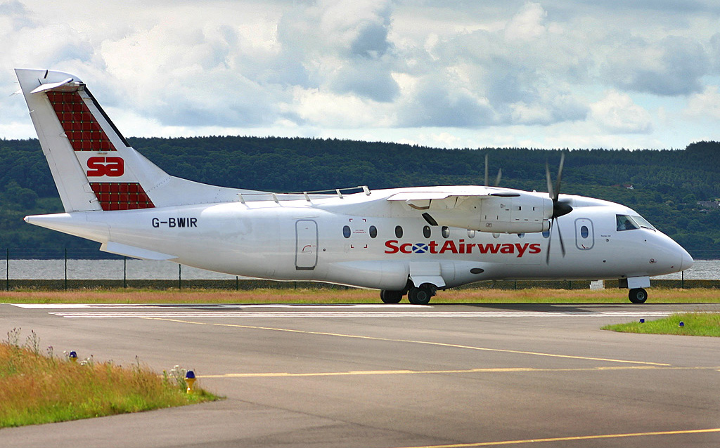 This image was taken by Martin J.Galloway. Donated from the British Photo Encyclopedia Dotonegroup : talk. ScotAirways Dornier 328 version 110, registration number G-BWIR, readies for takeoff at Dundee Airport, Tayside Region, Scotland.